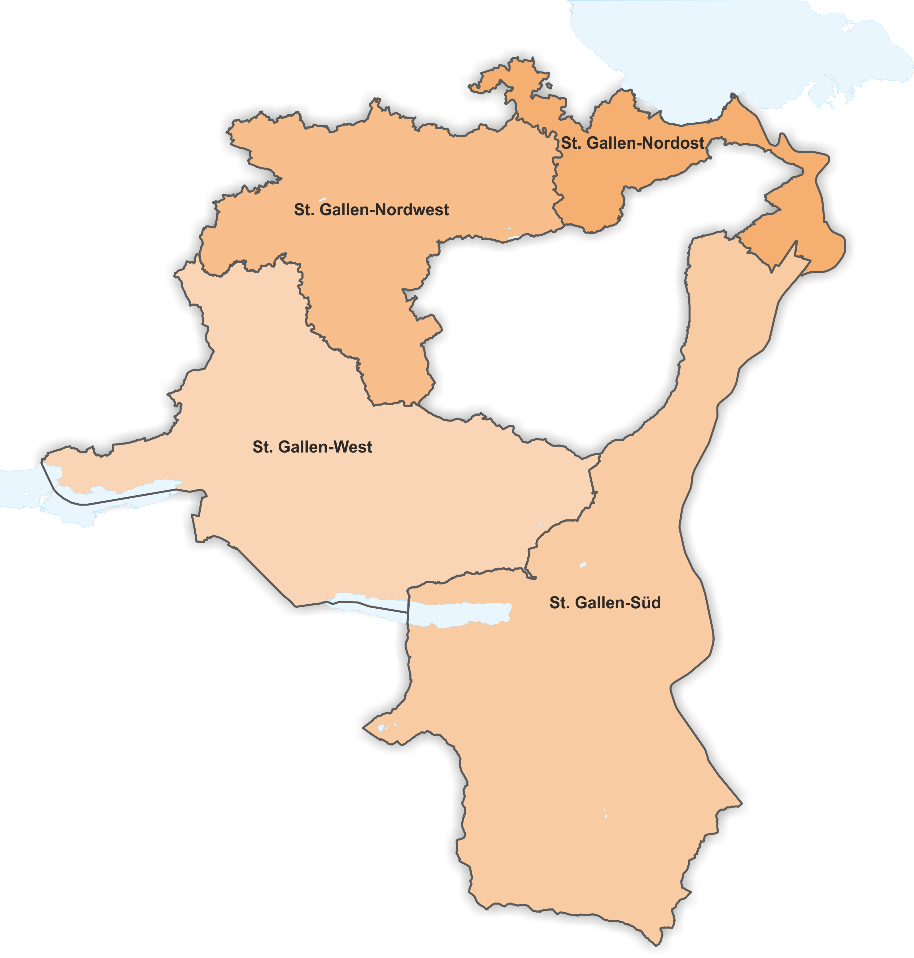 National council constituencies in the canton of St. Gallen from 1848 to 1860